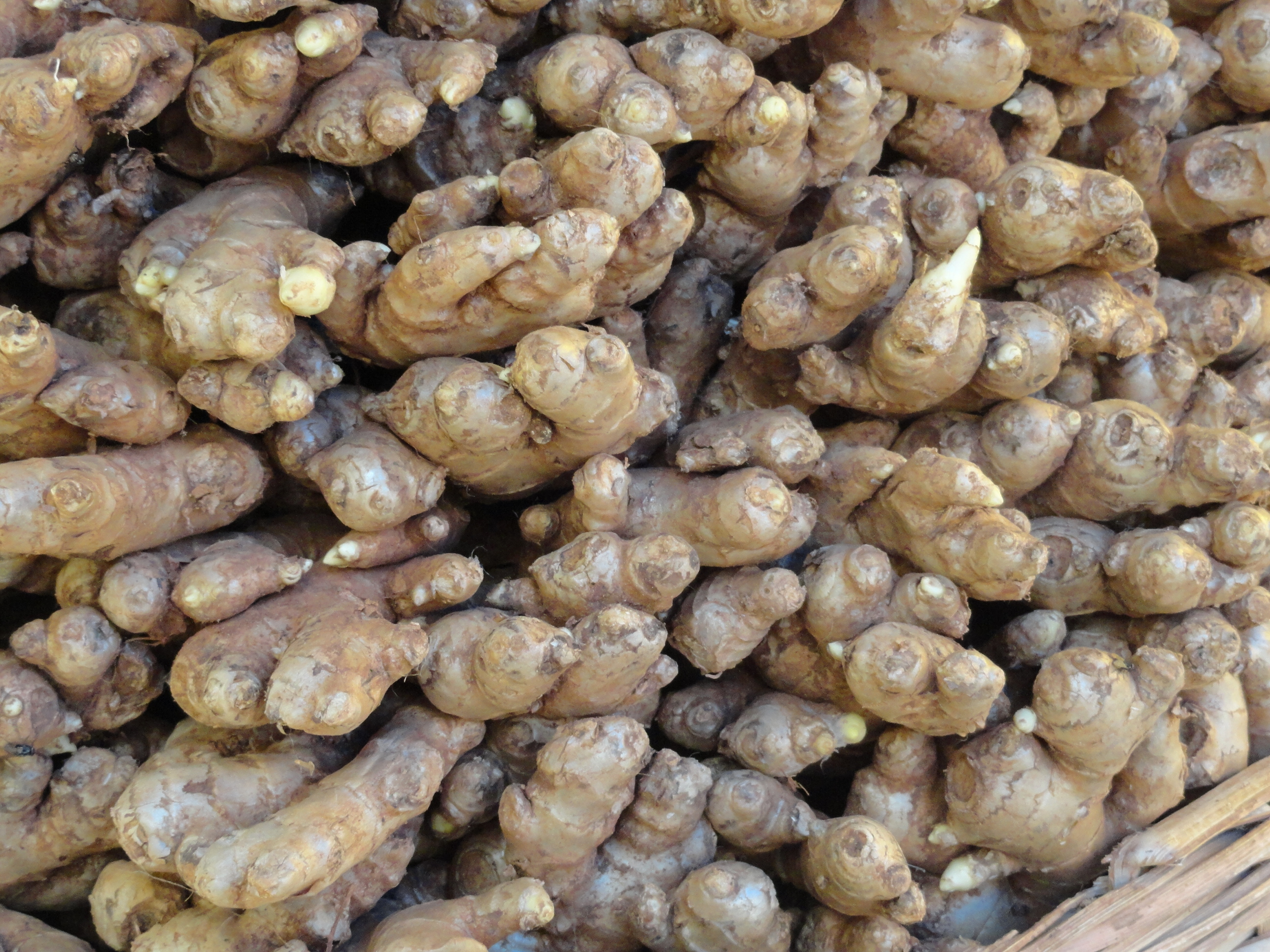 ginger